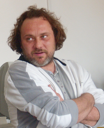 Zoltán Schneider, Hungarian actor